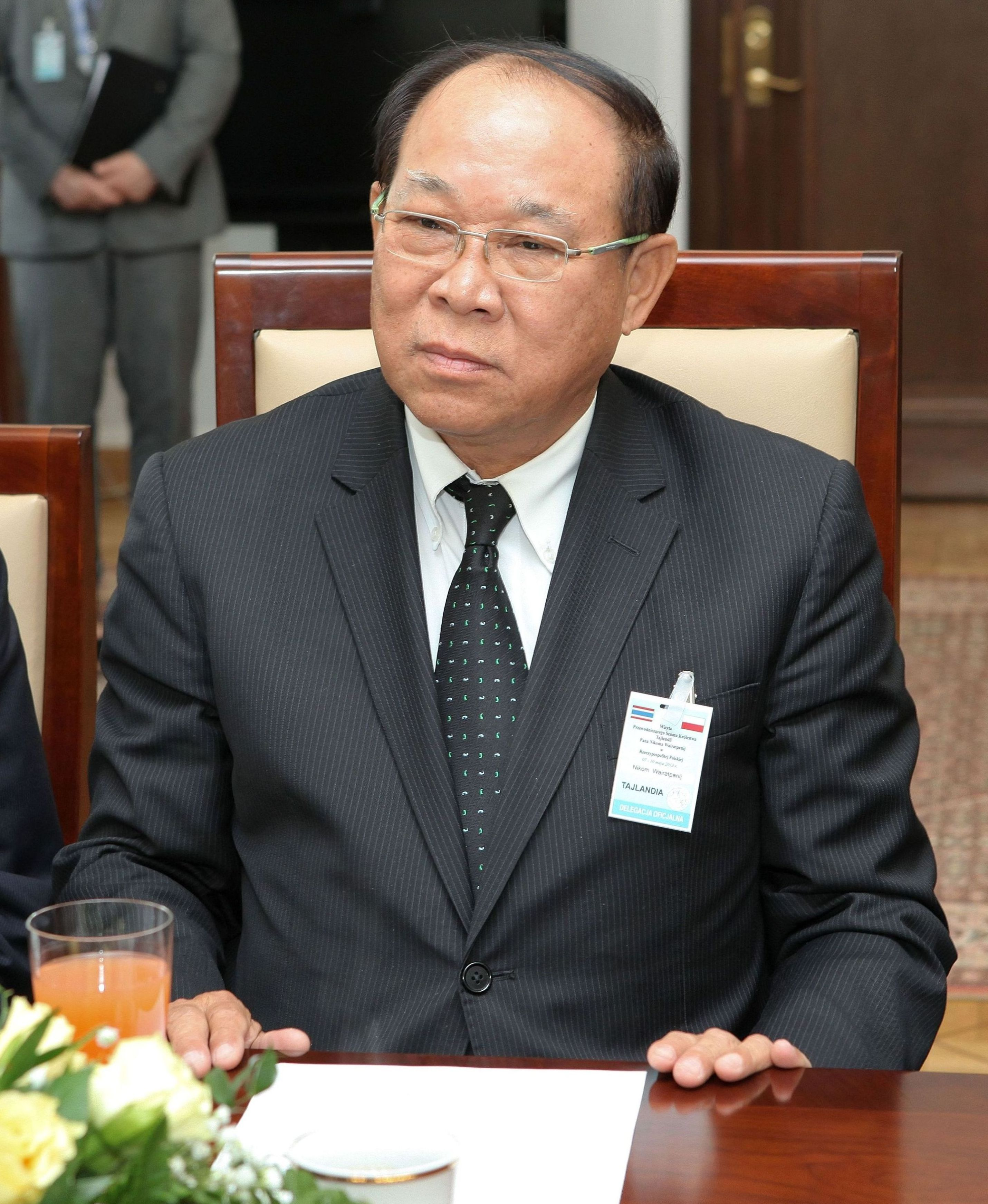 President of the Senate of Thailand Nikom Wairatpanij in the Polish Senate